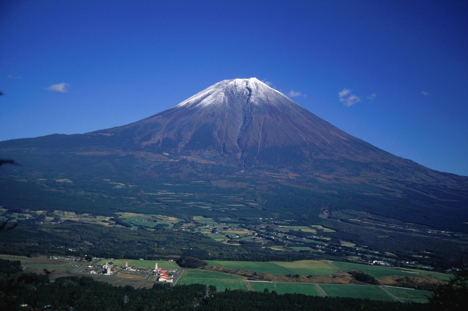 Mount Fuji and Asagiri Plateau seen from Mount Chōja in Japan.